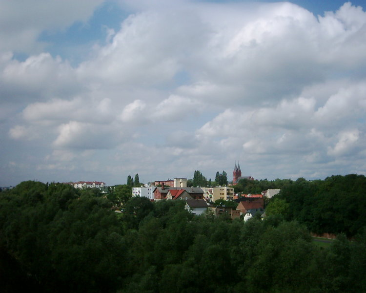 View from the castle tower in Świecie, Poland